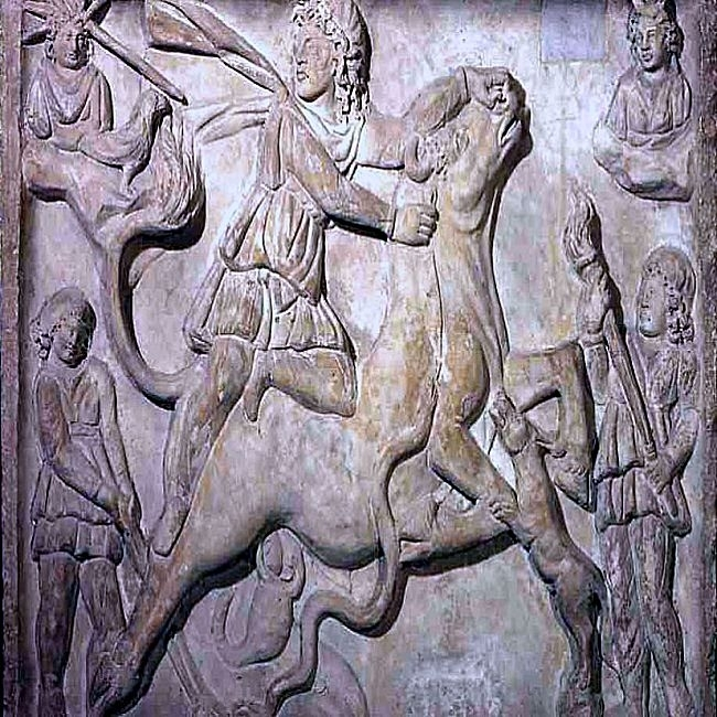 Mithras killing a sacred bull (tauroctony), Roman marble relief Grotta di Matromania, Capri, ca. 3rd or 4th century AD. Location: Museo Archeologico Nazionale (Naples) (inv. 6723).